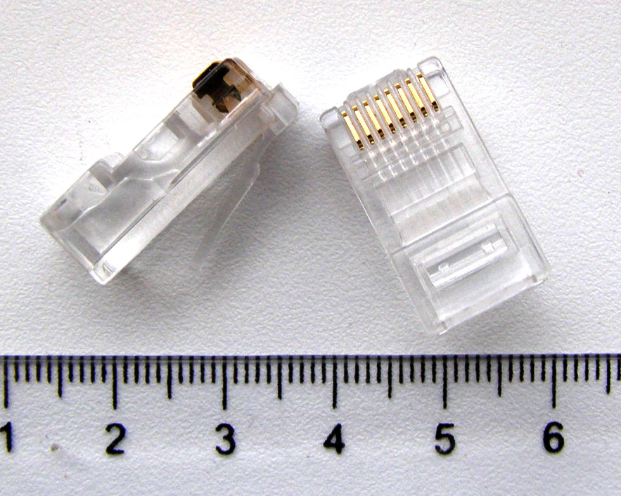 RG45 Connector